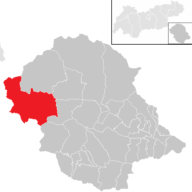 District Lienz